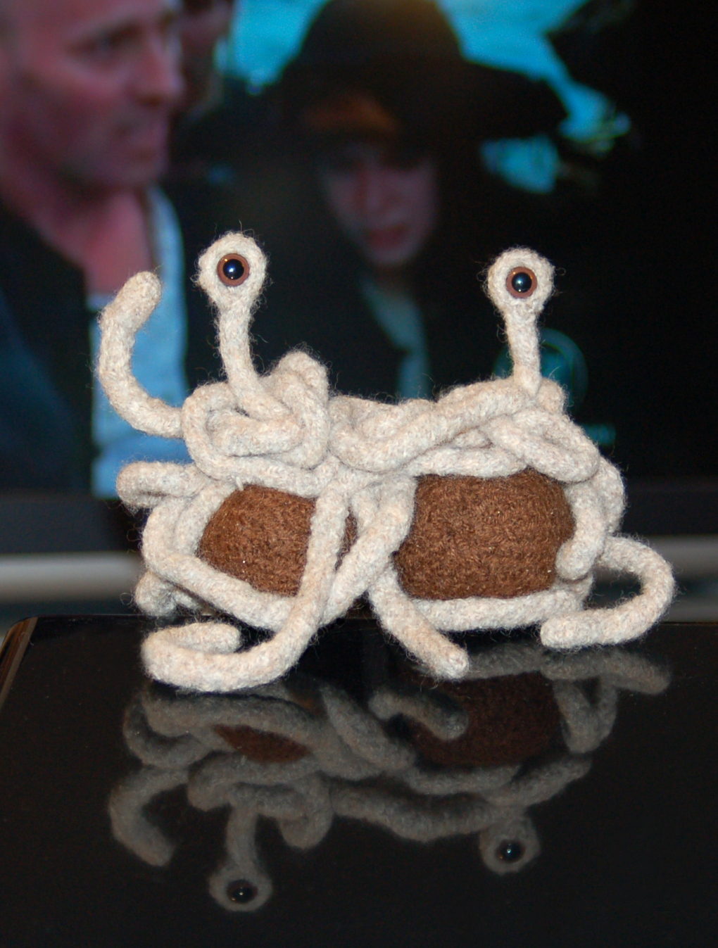 A sewn Flying Spaghetti Monster craft.